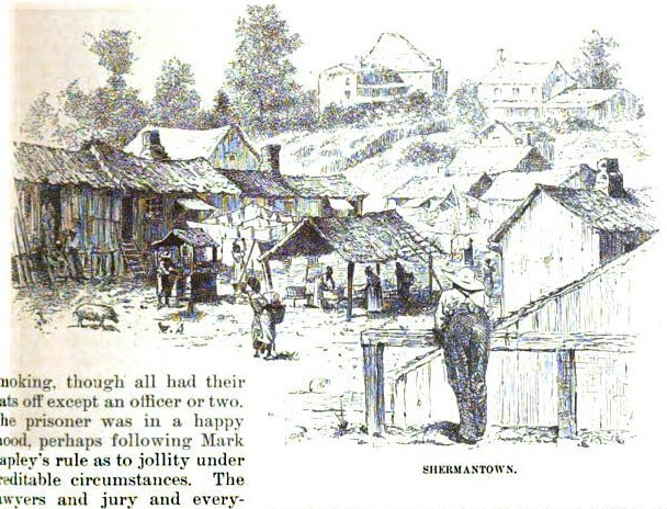 Illustration of Shermantown shantytown near Atlanta